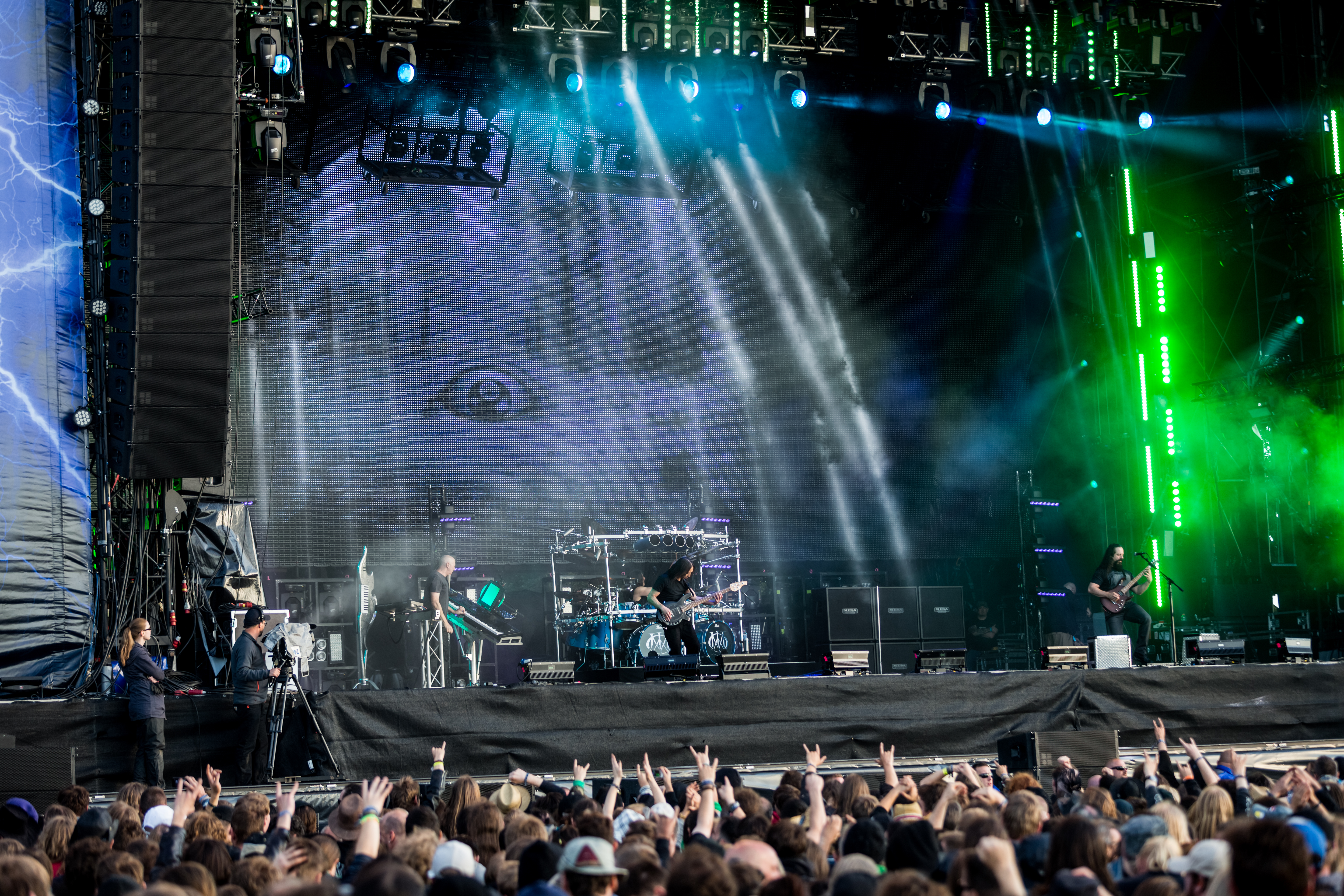 Dreamtheater - Wacken Open Air 2015